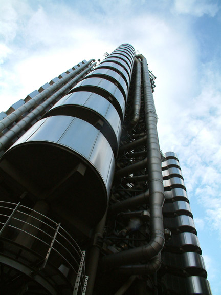 The Lloyd's Building